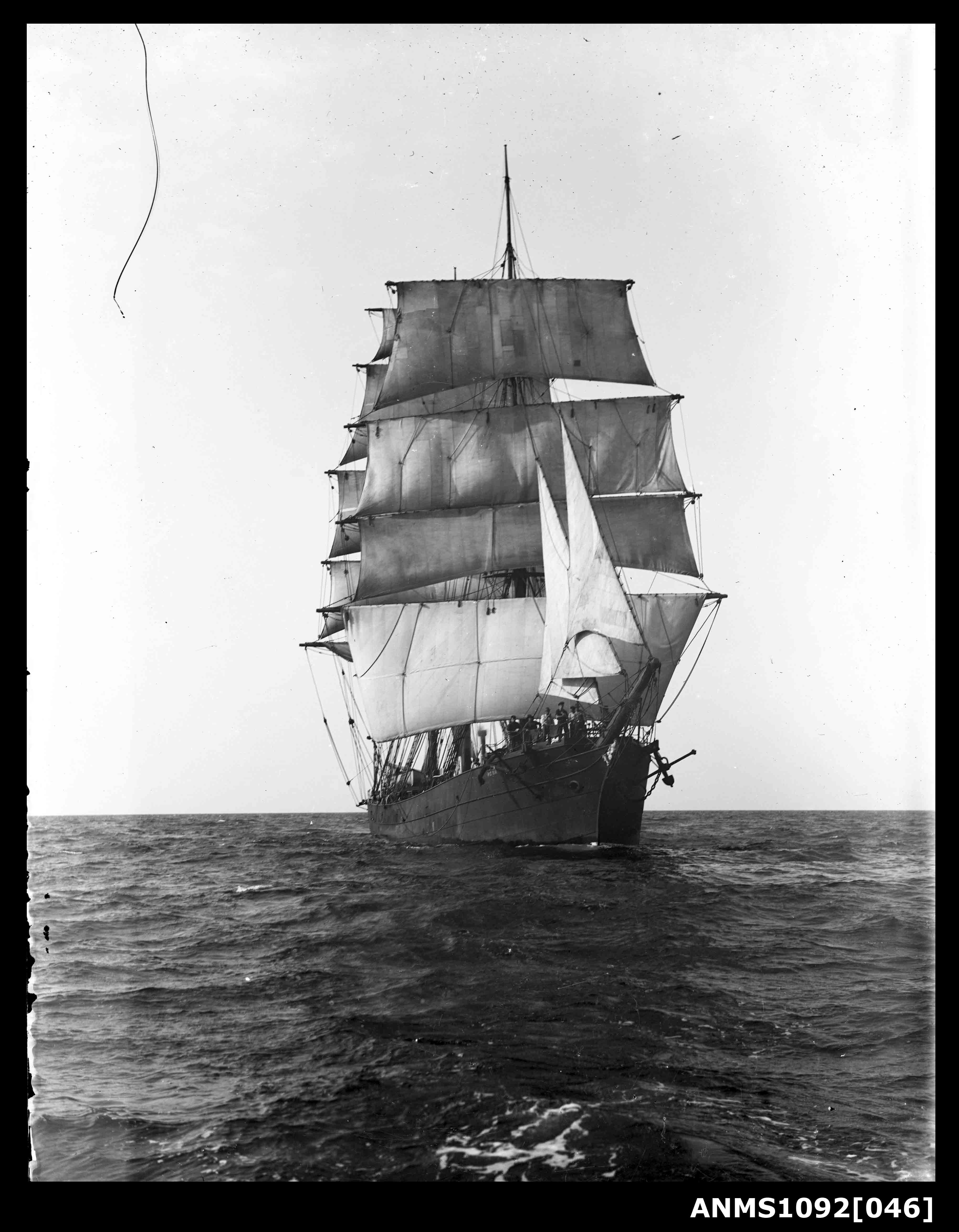 This photo was stored in an envelope with 'RONA' written on it. The vessel RONA /POLLY WOODSIDE is now a museum ship, based in Victoria. For more information on the vessel's history, please see its entry on the Australian Maritime Museum's Australian Register of Historic Vessels. . The image is part of the Australian National Maritime Museum’s William Hall collection. The Hall collection combines photographs from both William J Hall and his father William Frederick Hall. The collection mainly consists of maritime images taken around Sydney Harbour, but also includes portraits and livestock photography. The Australian National Maritime Museum undertakes research and accepts public comments that enhance the information we hold about images in our collection. If you can identify a person, vessel or landmark, write the details in the Comments box below. Thank you for helping caption this important historical image. Object number: ANMS1092[046] ANMM Collection Gift from Mr and Mrs Glassford